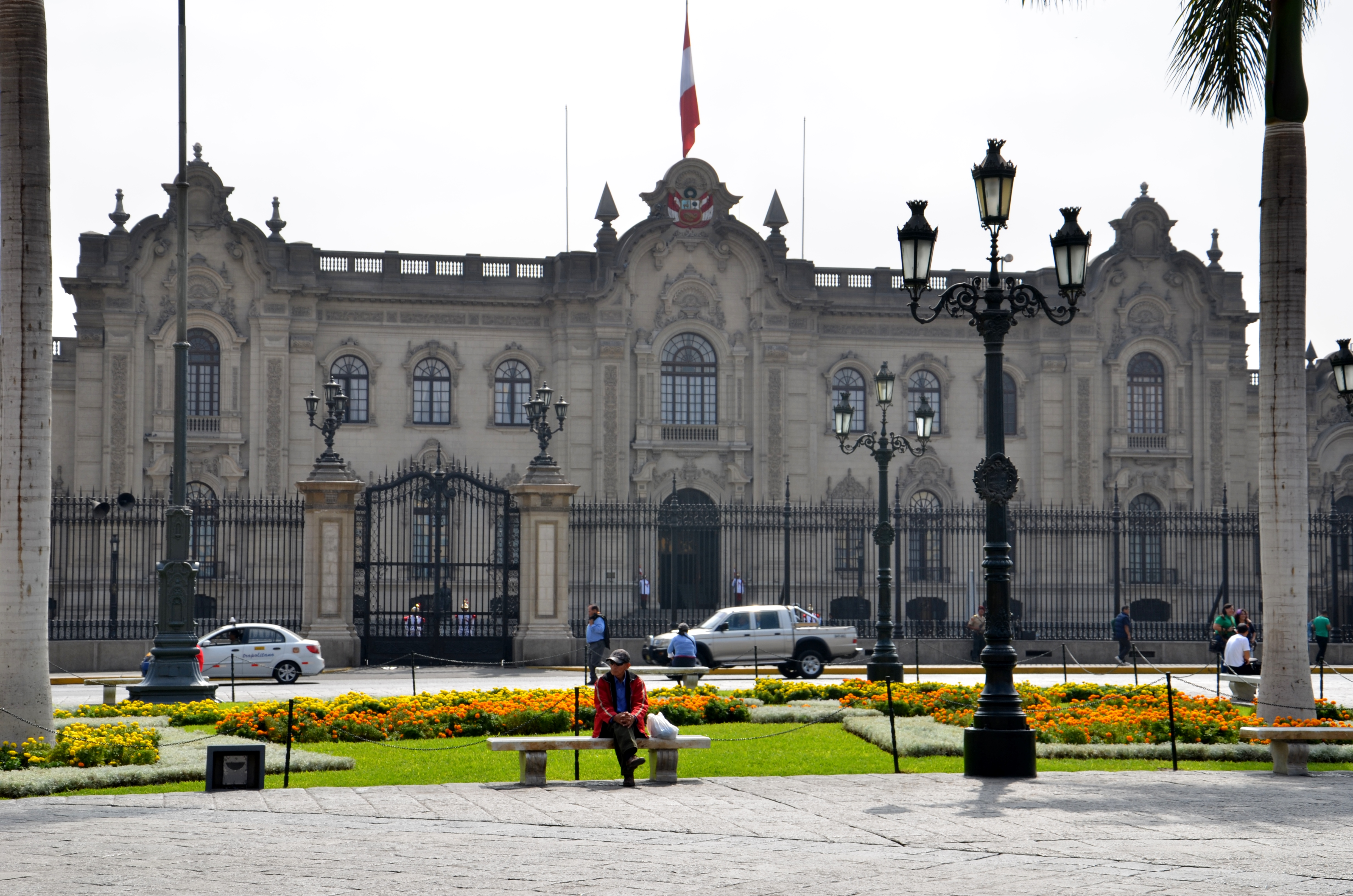 Lima, Peru - Palacio de Gobierno (Government Palace).